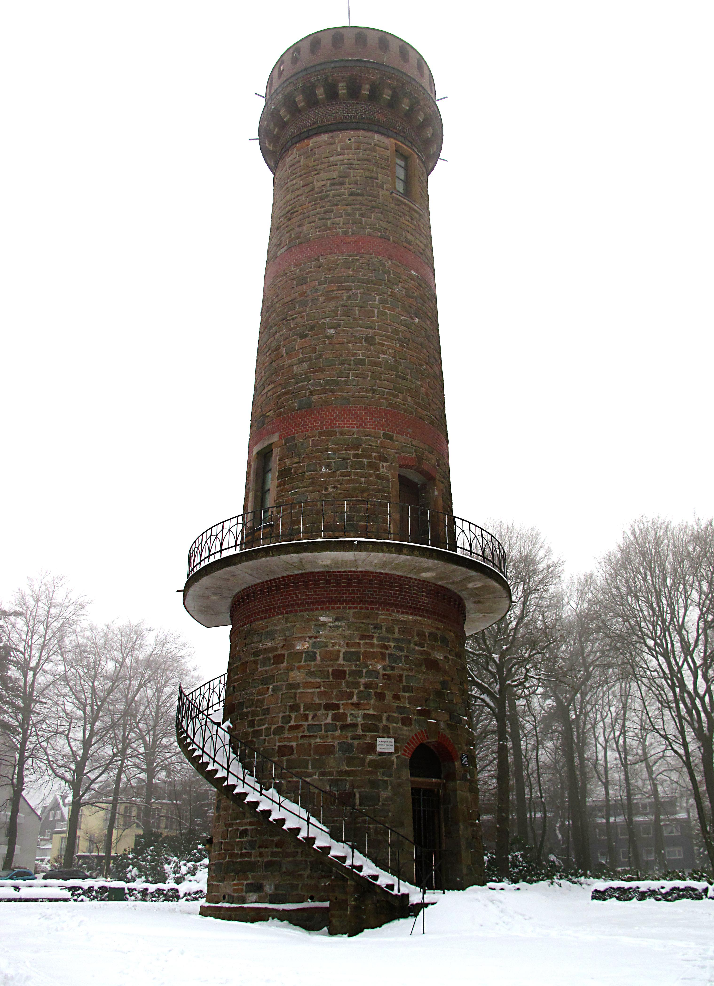 Toelleturm in Winter. 2010. By Sara Pons.